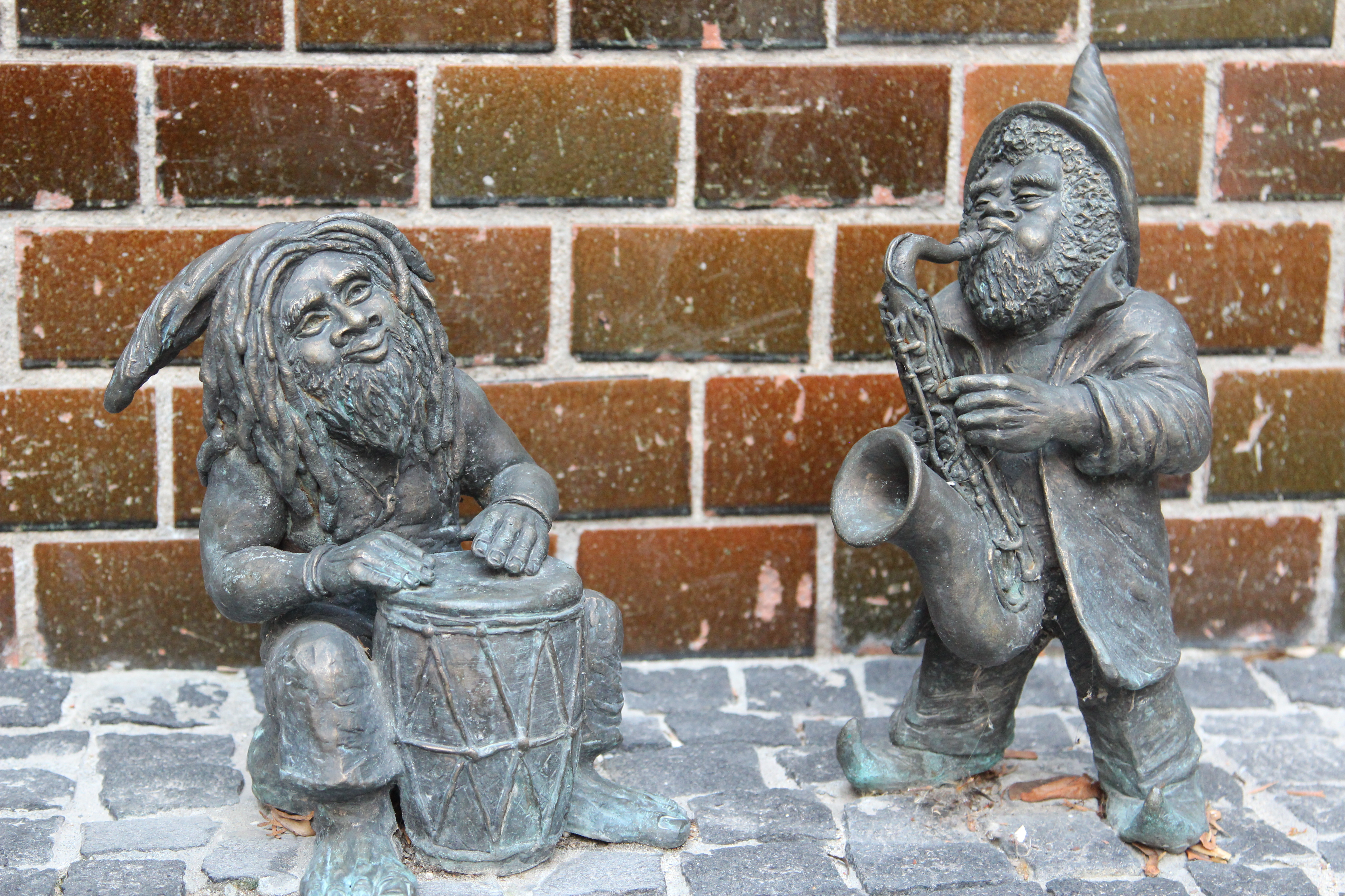 Tolerance dwarves (Krasnale tolerancji) from Pokoyhof Passage on św. Antoniego 2/4